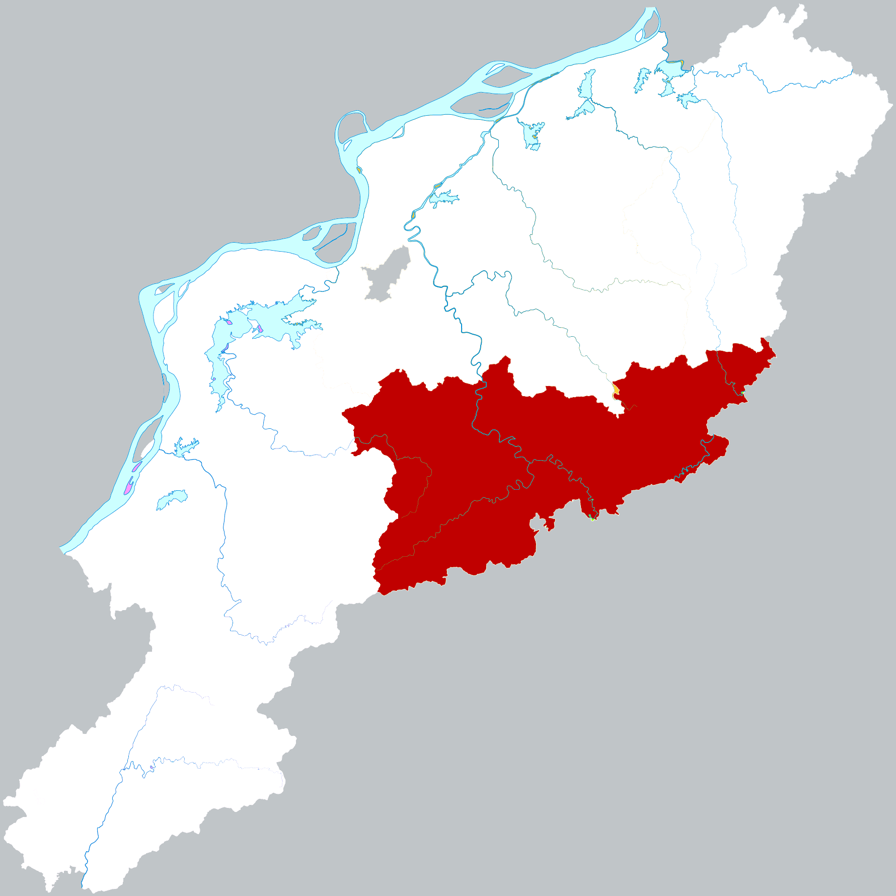 Location of Shitai county in Chizhou city, China